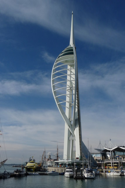 Spinnaker Tower Photographed from Gunwharf Quays.